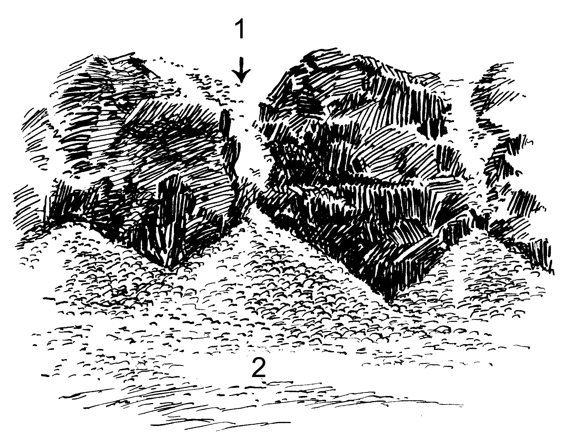 Line art drawing of alluvial cones. Ravine Cones